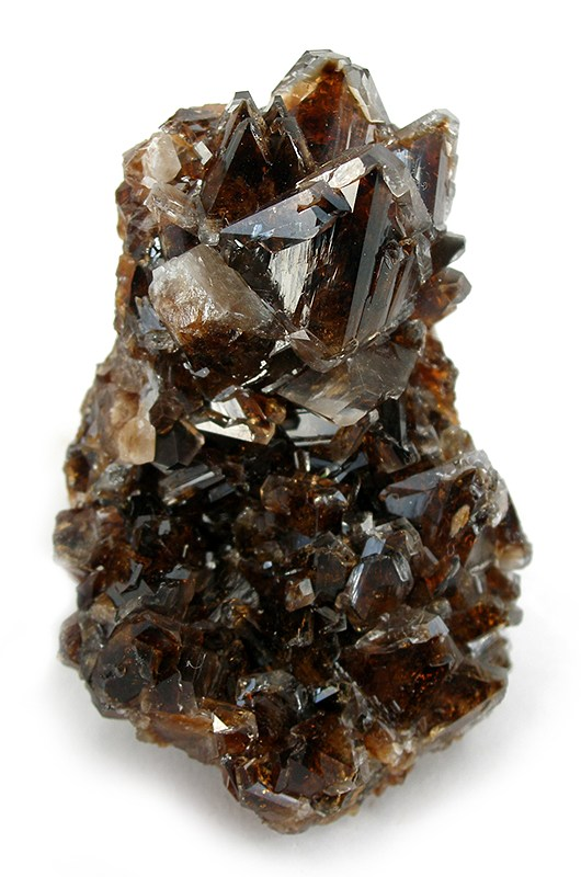 Colemanite Locality: Kestelek Mine, Mustafa Kemalpafla, Bursa Province, Marmara Region, Turkey (Locality at ) Size: 5.5 x 5.1 x 4.4 cm. Sharp crystals to 2 cm make this the most dramatic example for the find from late 2005, because this is the largest crystal I know of to date. The twinning is sharp and well-developed, much more easily visible because of the size of the crystal. Three other large crystals, to over 1 cm, flank the big one's rear. I like the look of it as a castle or mountain with smaller peaks winding elegantly down the center-right of the piece. From the collector’s point of view, they are unusually pretty as previous colemanites have generally been white to chalky in color, with few exceptions as a rule. Moreover, and even more interesting, these specimens are composed of twinned crystals which have really sharp and interesting intersections resulting in complex crystallography. Lastly, they fluoresce in an interesting pattern with yellow or white zones at those intersections.